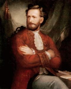 XVIII century of Painting of Gabriel Cano y Aponte